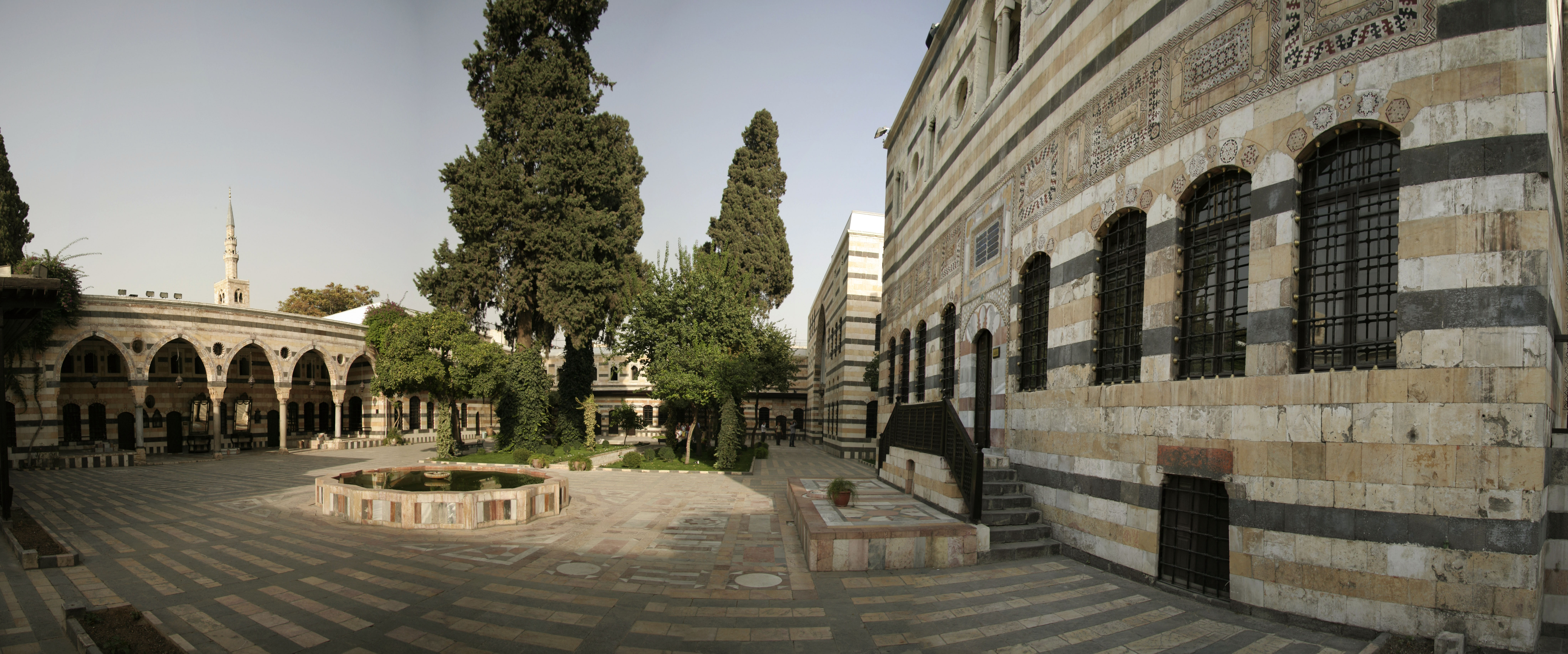 Inner courtyard of the Azm Palace